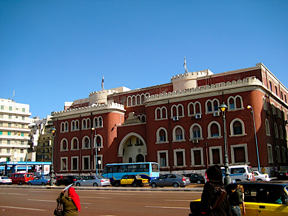 alex_univ